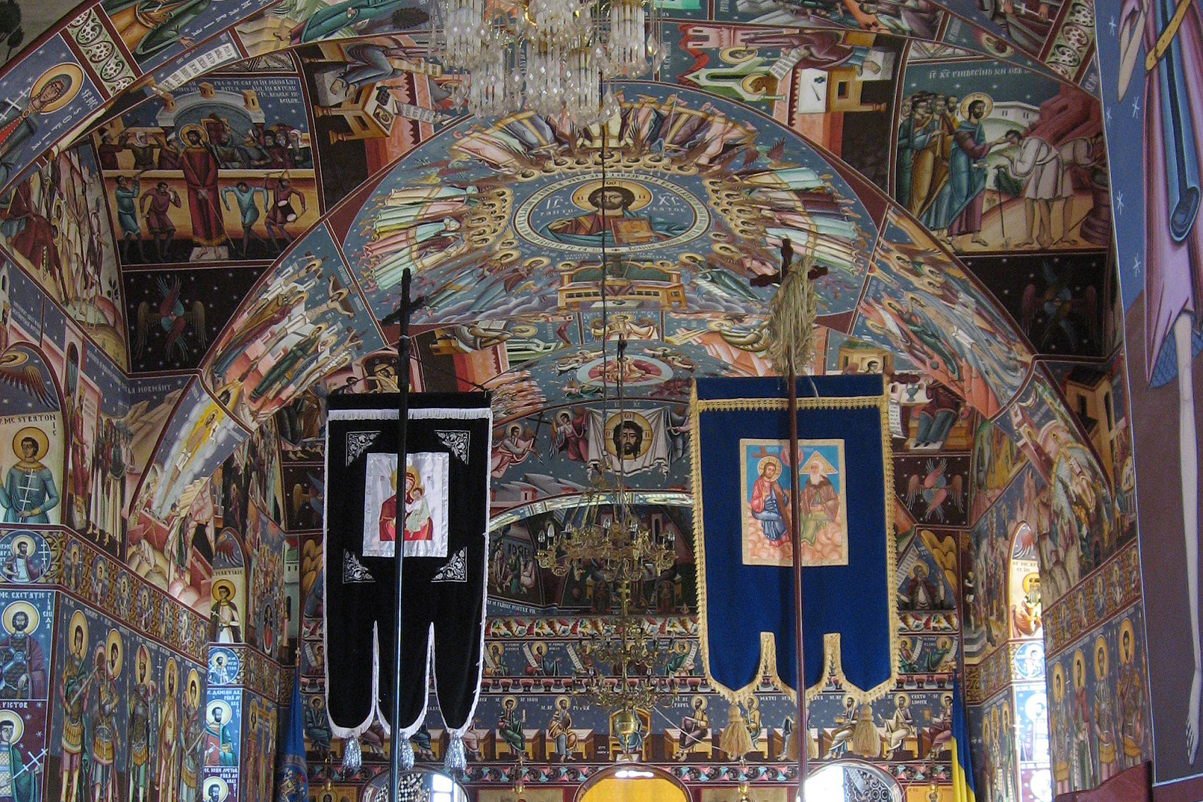 byzantine paintings inside the orthodox church of Pojorta, community of Lisa, Braşov County, painted by Joseph Stieger from 1990-2001